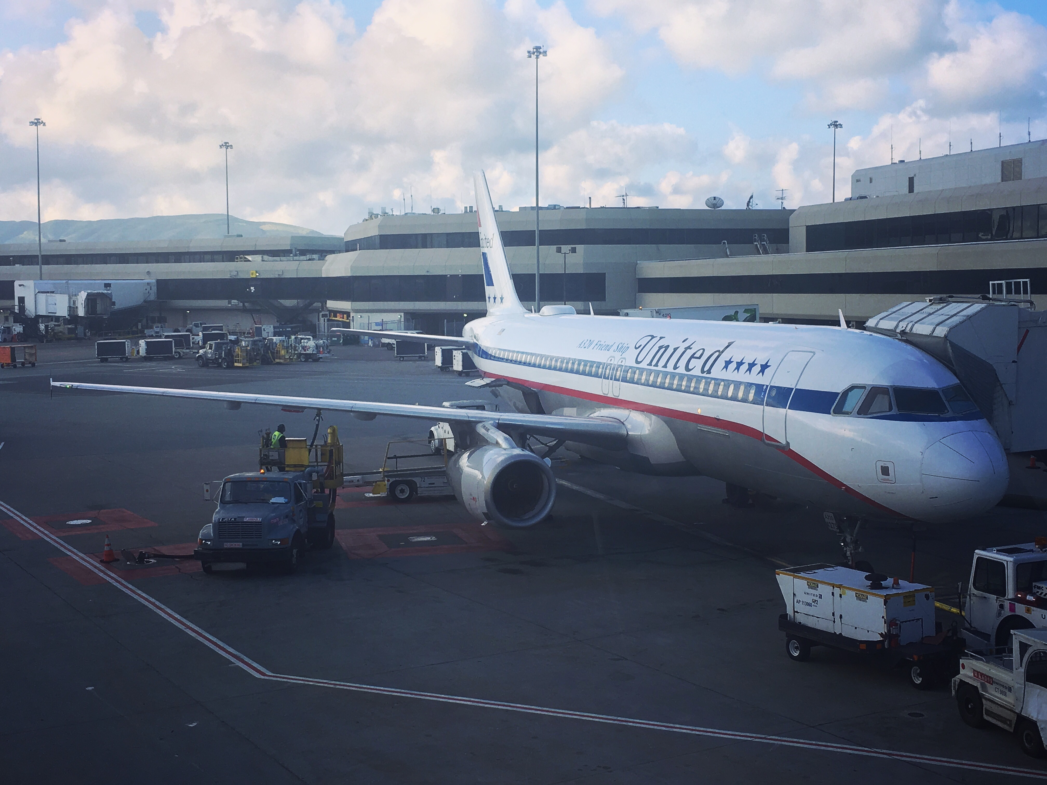 United Airlines Airbus 320 in the historic "Friend Ship" livery at the gate at San Francisco International Airport.